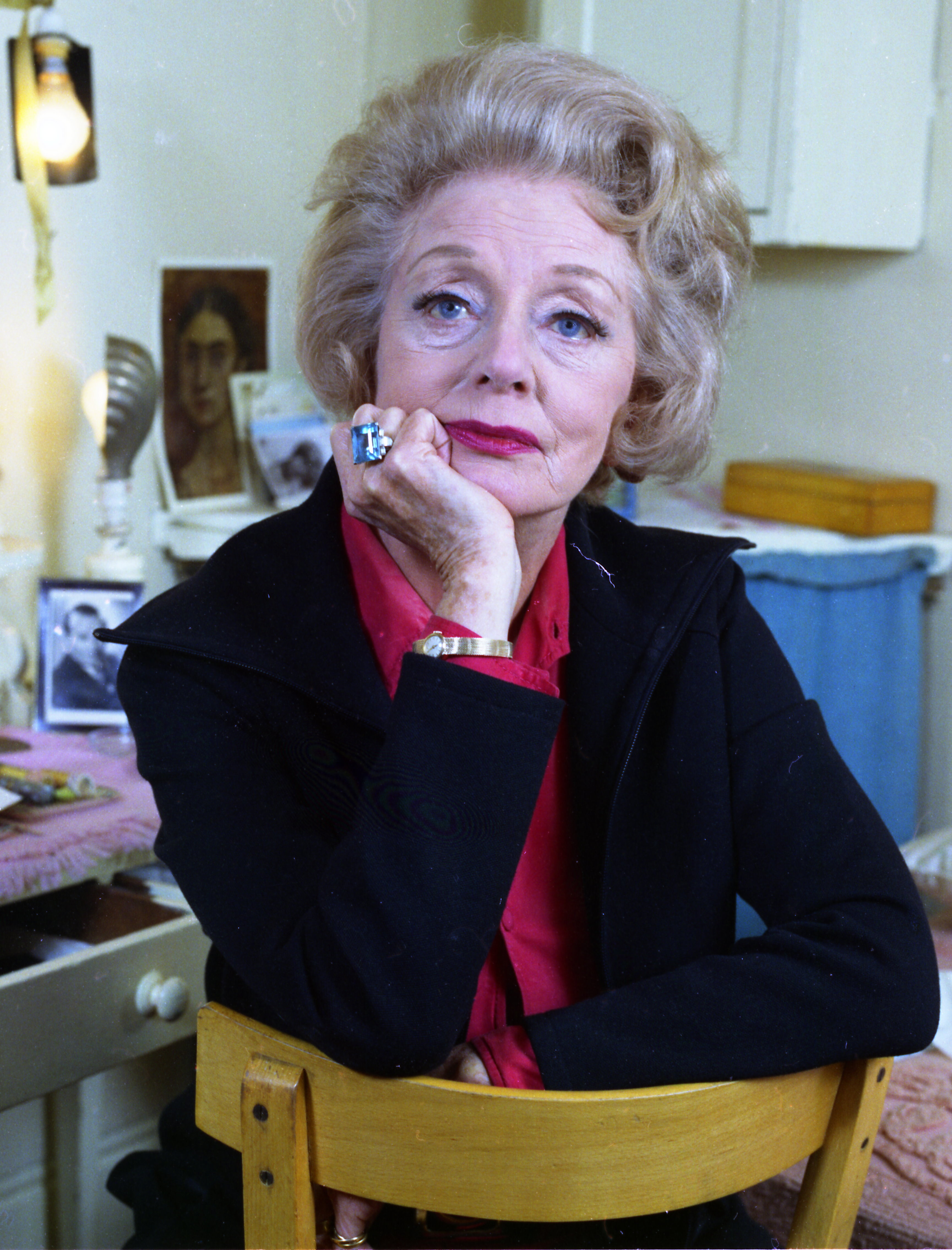 portrait of Evelyn Laye